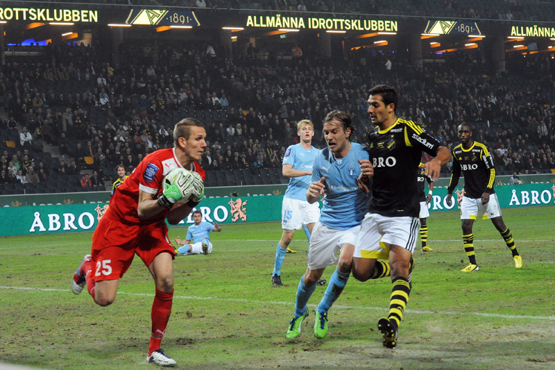 A shot of the 2013 Allsvenskan match between AIK and Malmö FF.